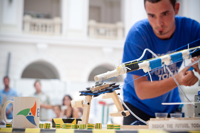 ebec td